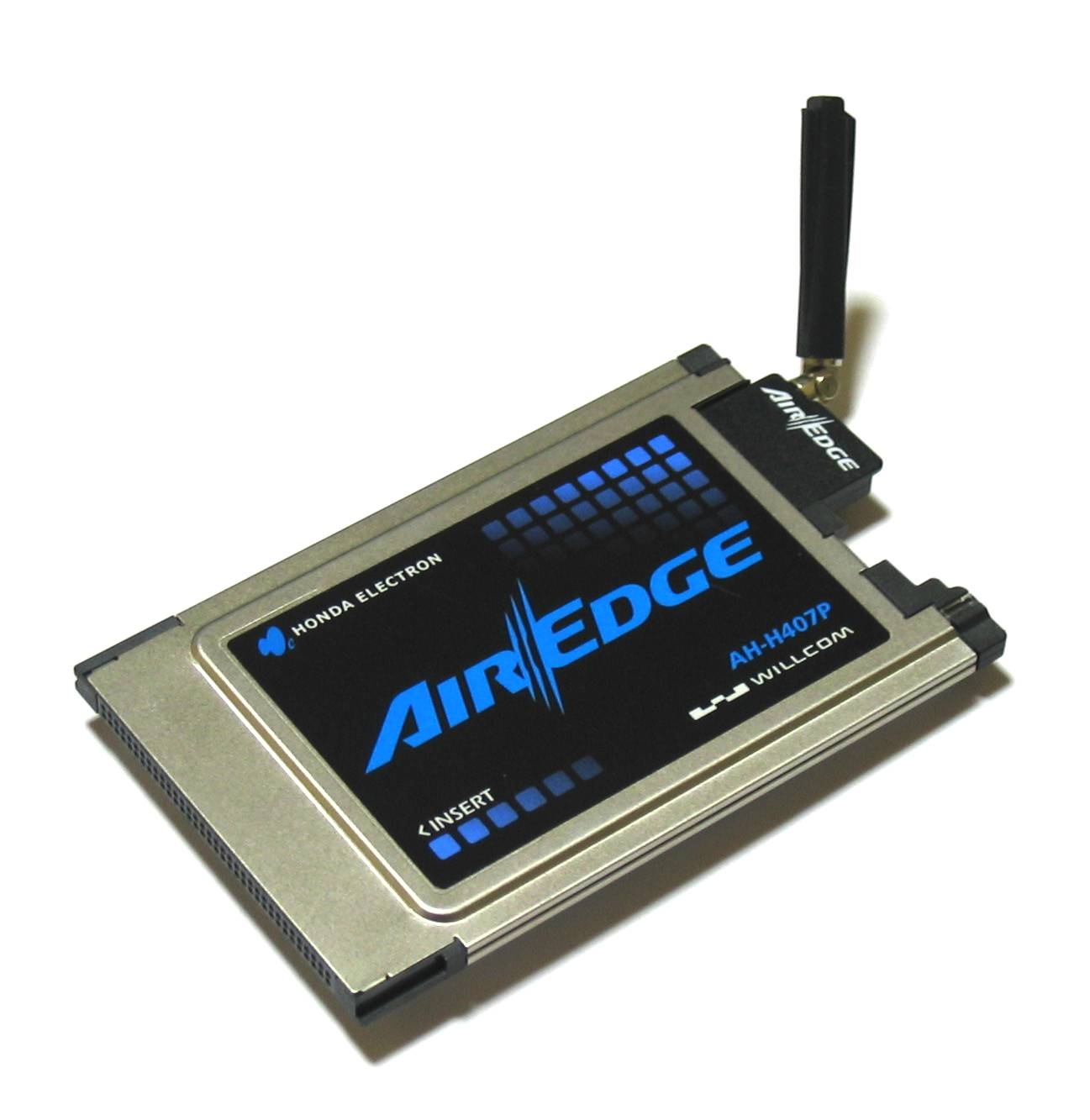 AH-H407P is an AIR-EDGE PHS communication card. It was made by HONDA ELECTRON ( = netindex). Insert in a PC card slot on your PC, and expand an antenna.